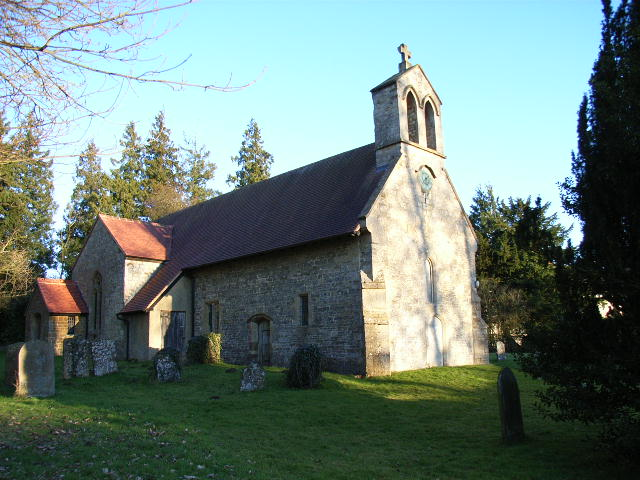 Church of England parish church of St James, Barton Hartshorn, Buckinghamshire: view from the northwest